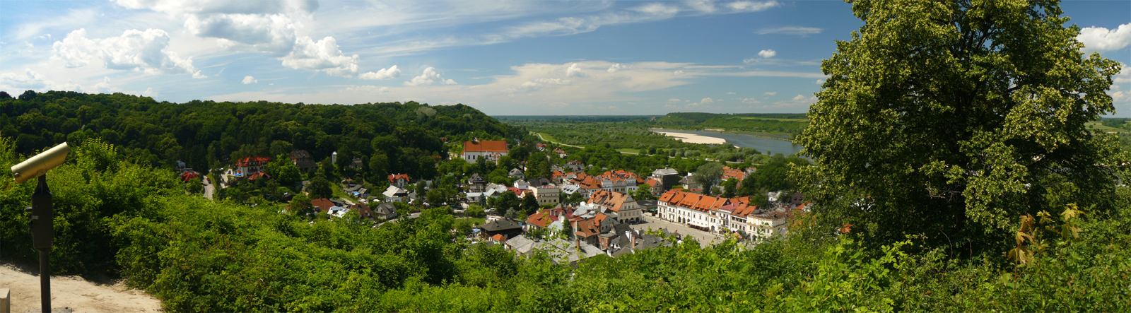 Kazimierz Dolny - view from The Three Crosses mountain